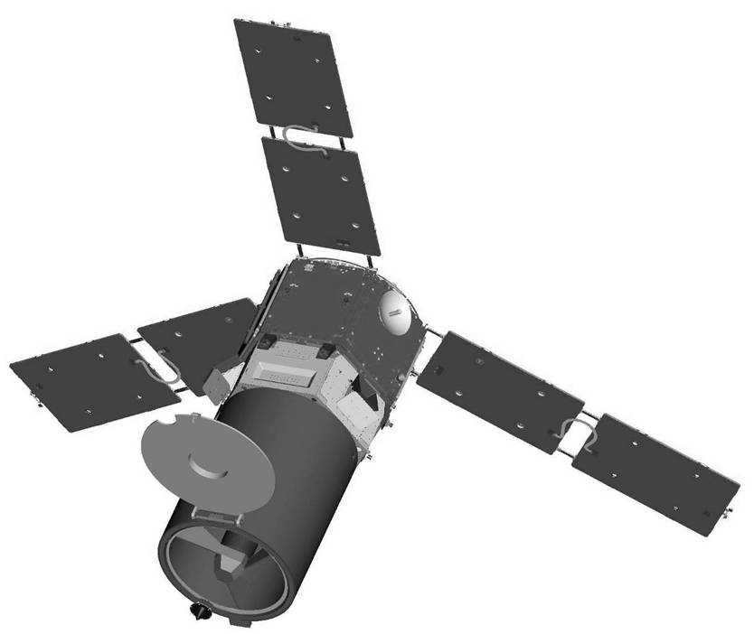 Illustration of the ORS-1 satellite, an operational prototype, scheduled for a one to two-year mission.